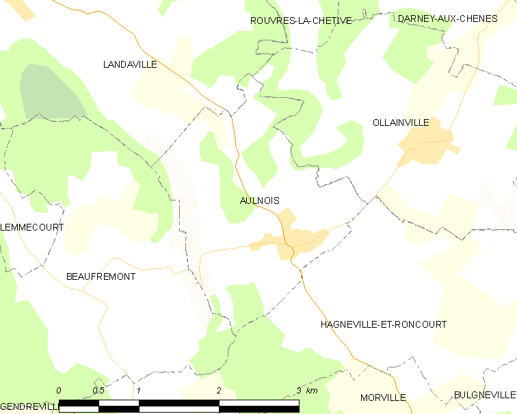 Map of French municipality Aulnois